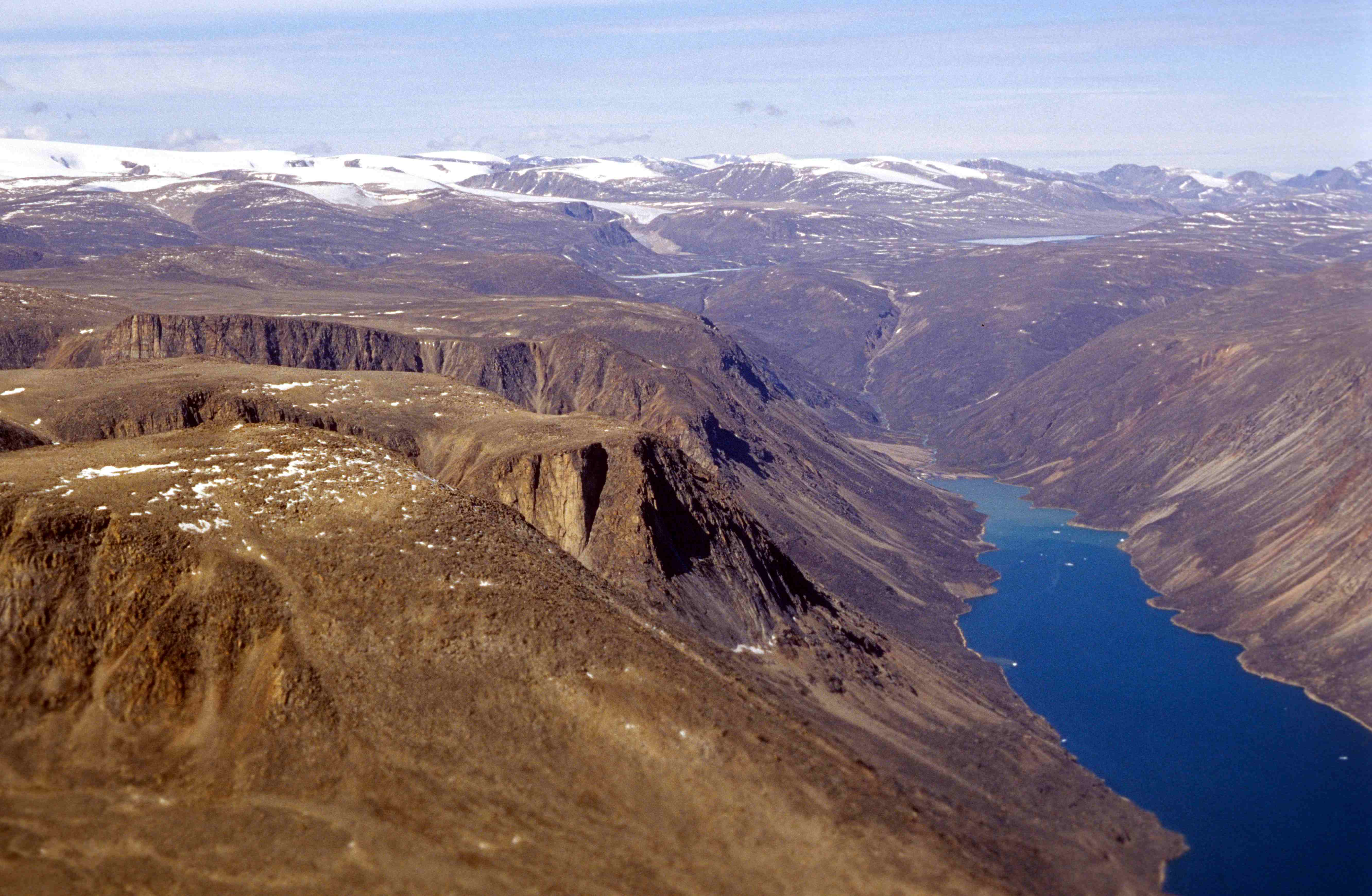 Maktak Fiord (Davis-Straße) and Penny Ice Cap, north-eastern coast of Cumberland Peninsula